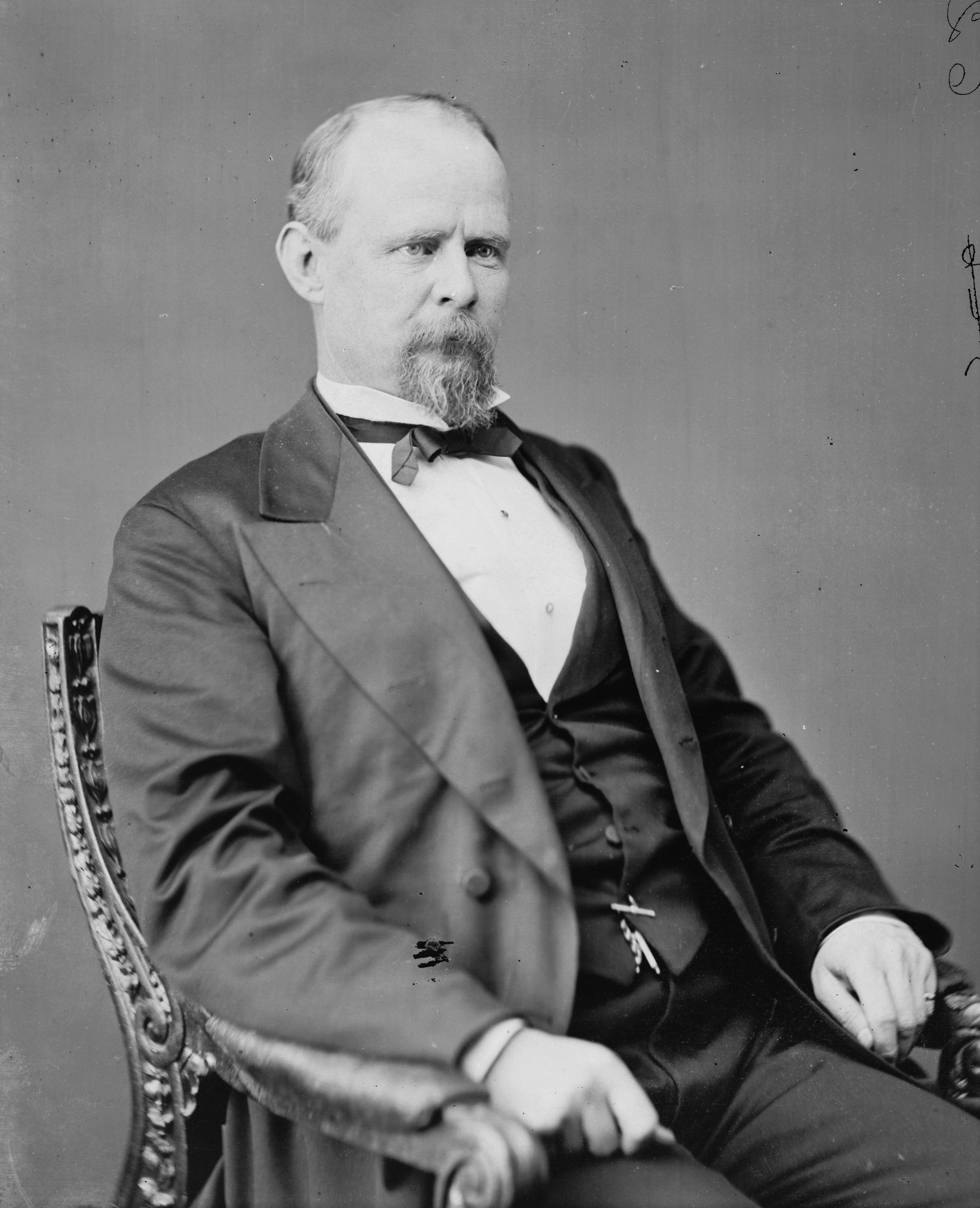 Adlai E. Stevenson. Library of Congress description: "Stevenson, Hon. Adlai Ewing, Rep of Ill. Vice Pres of USA".